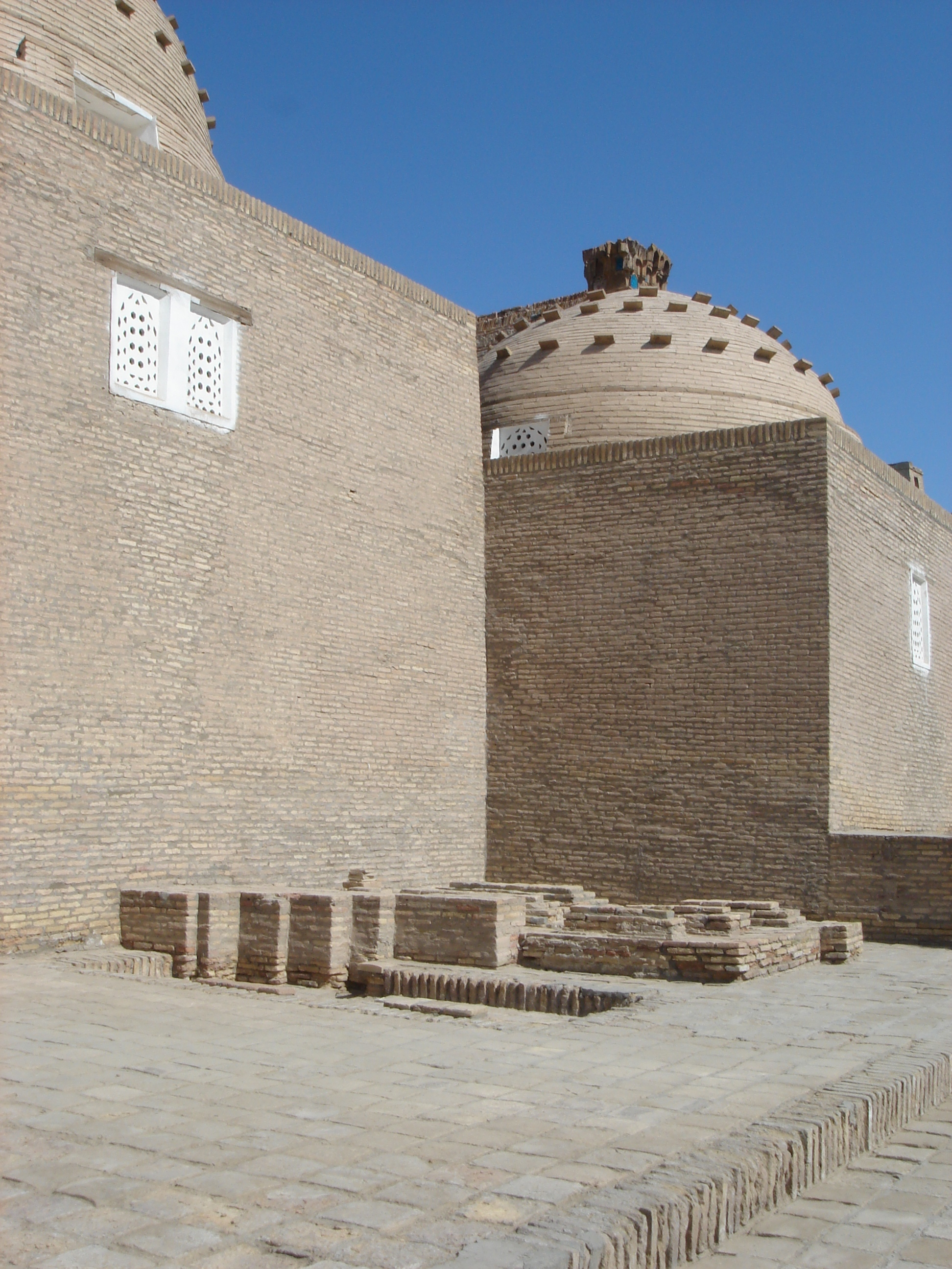 Najm ad-Din al-Kubra Mausoleum and Sultan Ali Mausoleum